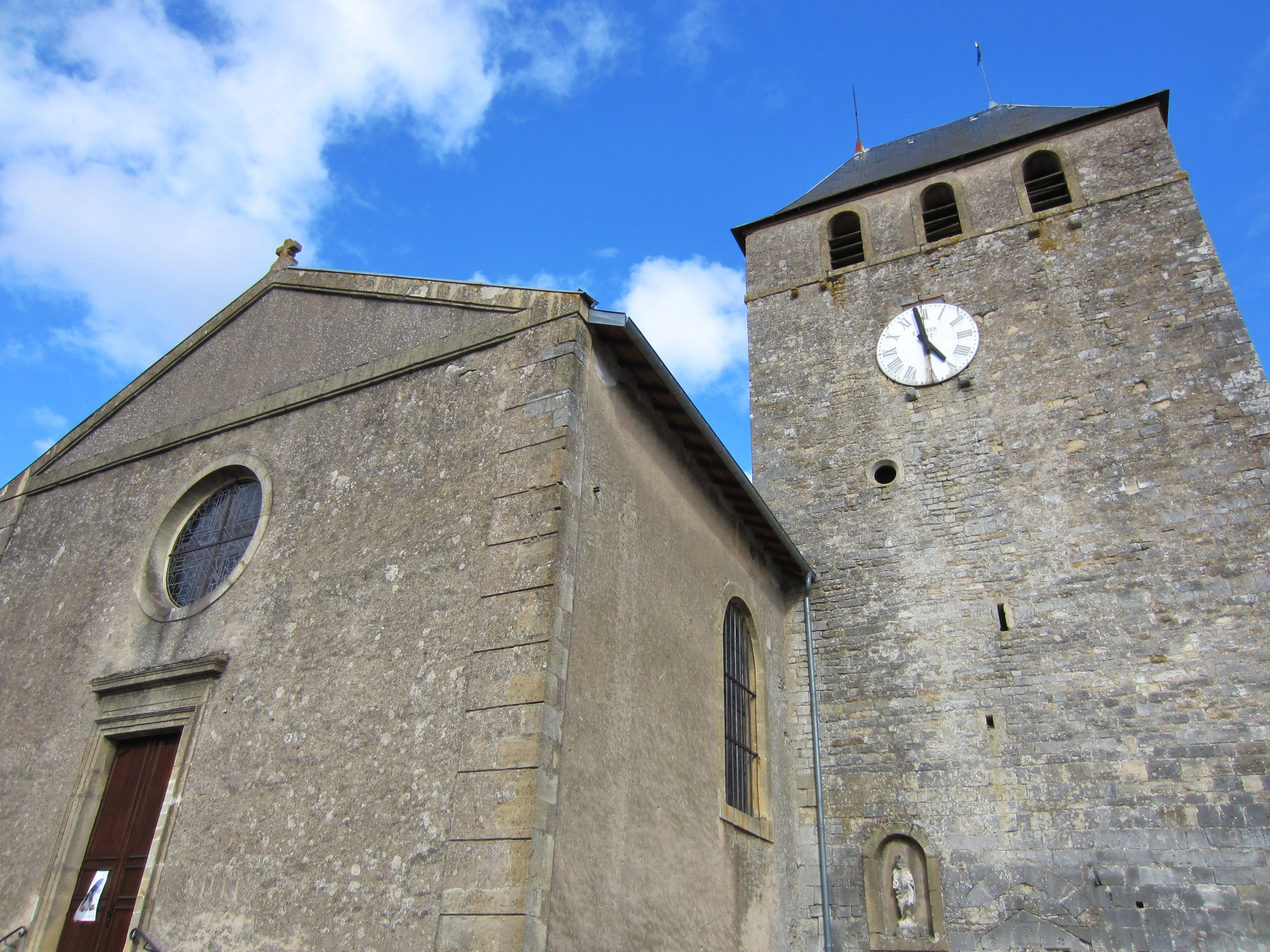 Description eglise Onville Date13 September 2011Sourcemon appareil photoAuthorAimelaimePermission (Reusing this file) eglise Onville